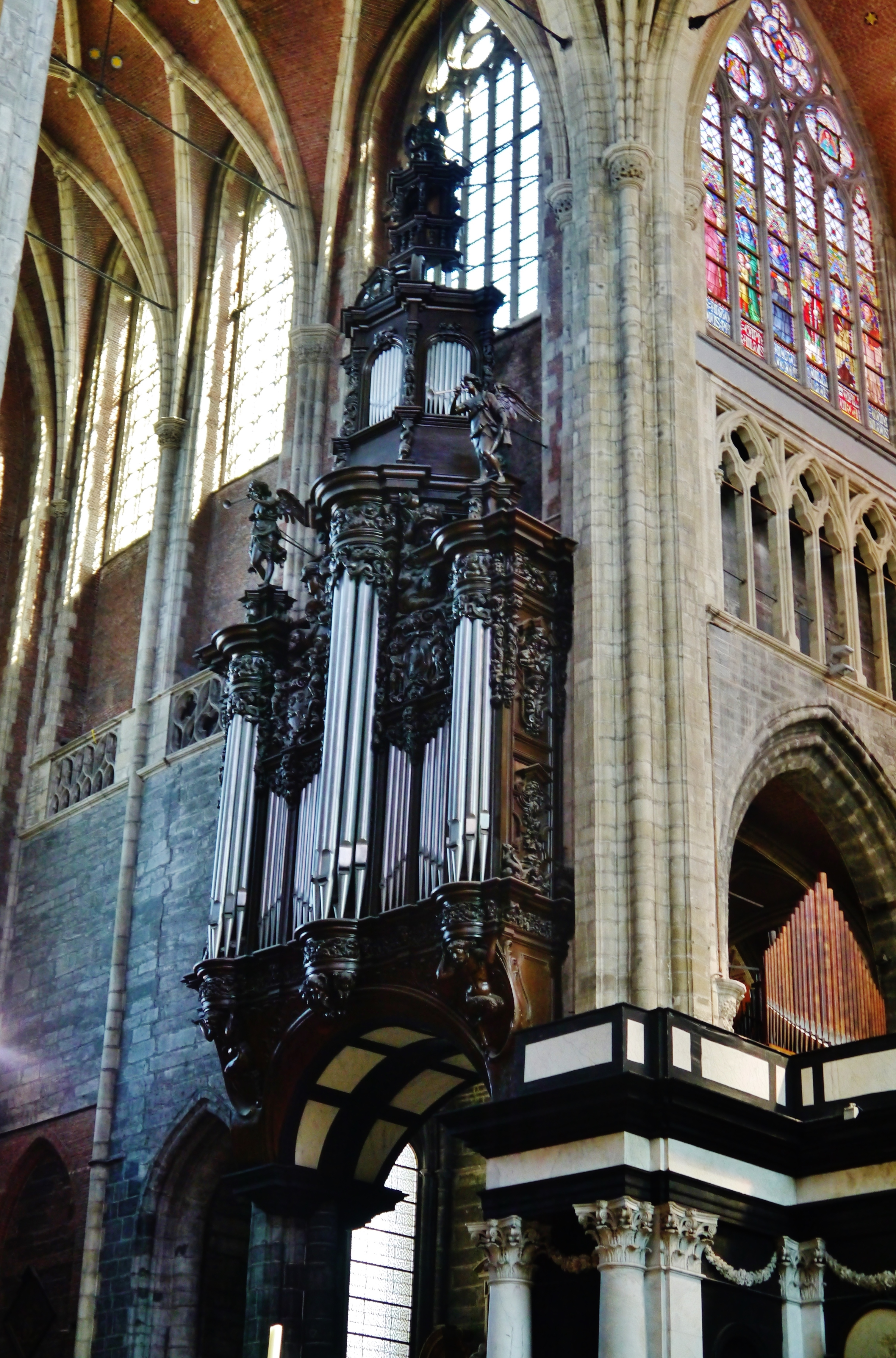 Organ of the Cathedral St. Baaf, Ghent, Province of East Flanders, Flanders, Belgium